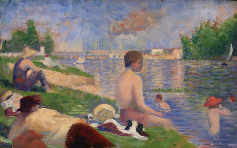 Final Study for "Bathers at Asnières", 1883